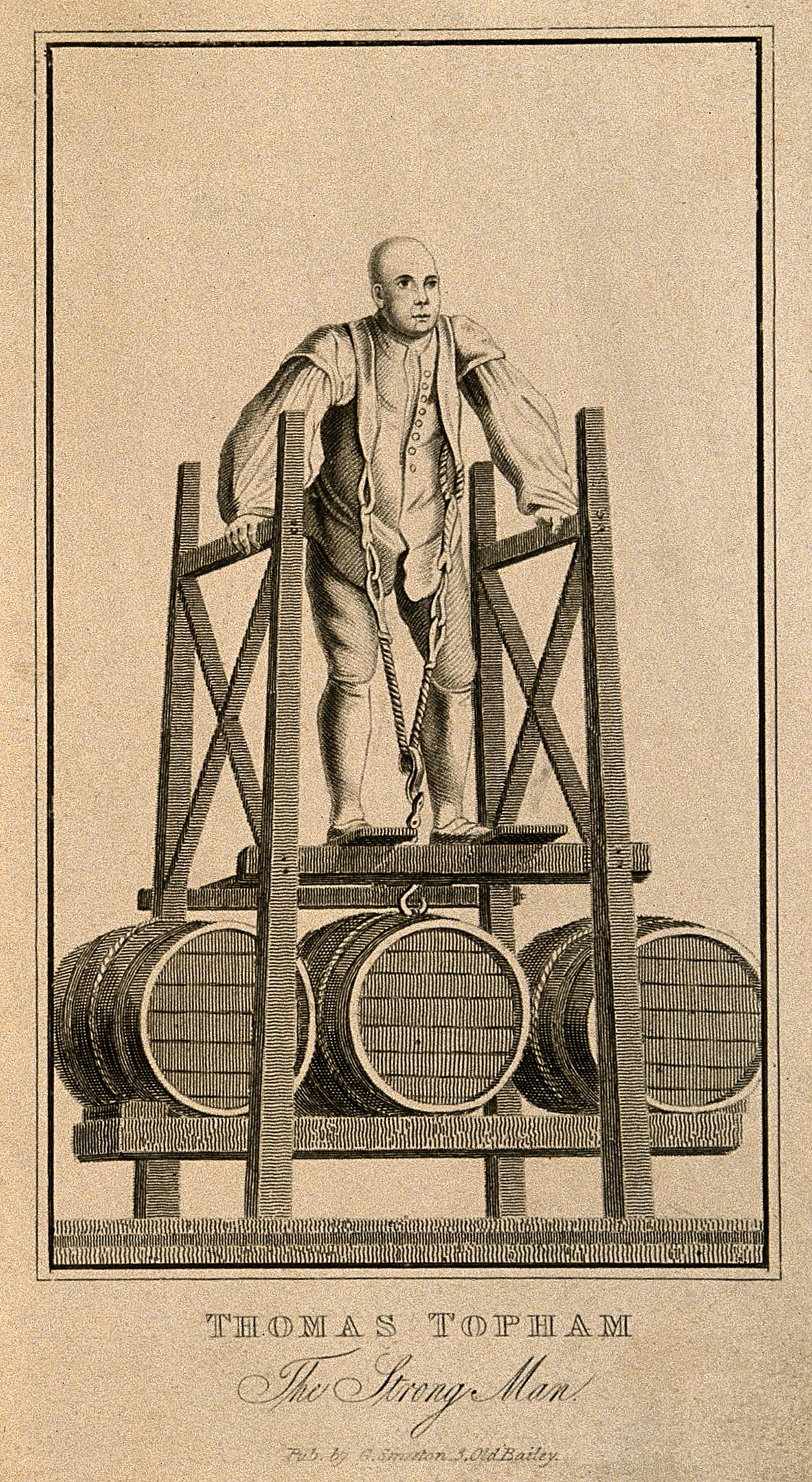 Thomas Topham, lifting 1836 lbs. Engraving after C. Leigh. Iconographic Collections Keywords: C. Leigh; Thomas Topham